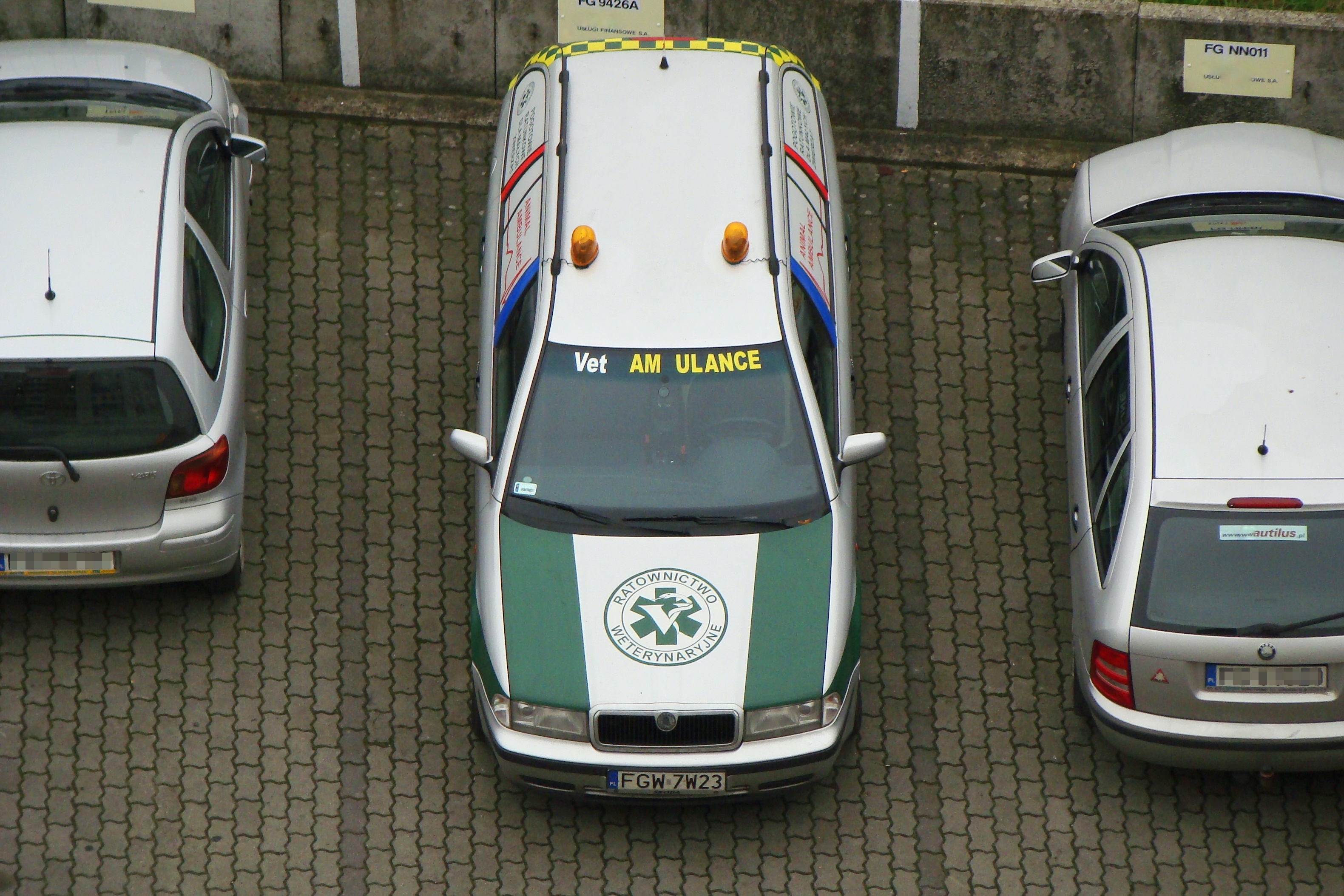 Veterinary Ambulance (Škoda Octavia I) in Gorzów Wielkopolski, Poland.